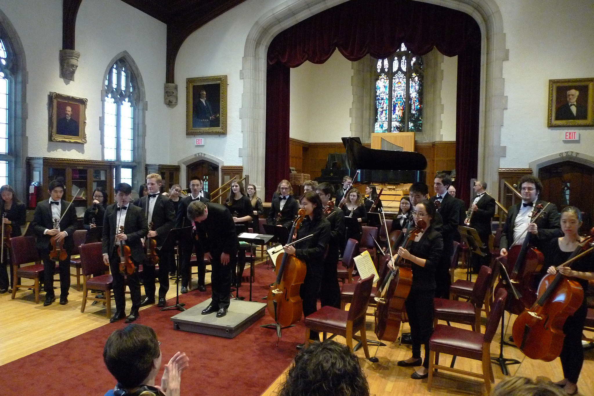 Chamber Orchestra of McMaster University